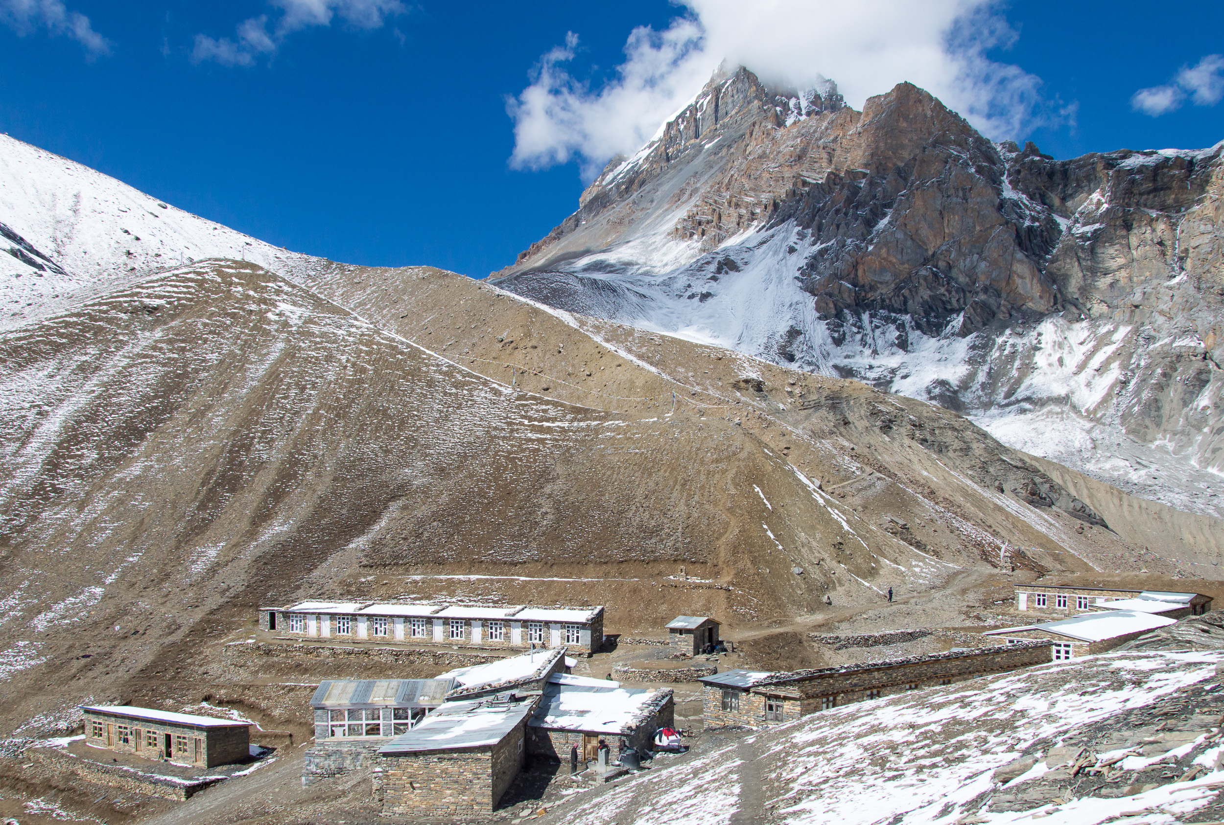 Thorong High Camp (Annapurna Circuit, Nepal)